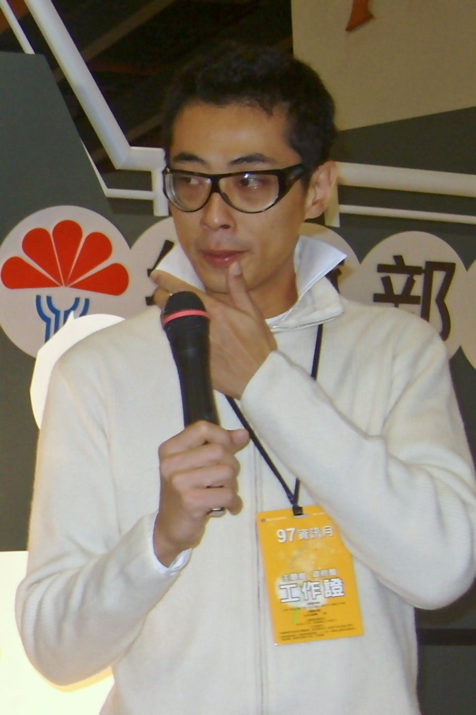 2008 Taipei IT Month - Small and Medium Enterprise Administration, Ministry of Economic Affairs: Malasan (Nien-sien Ma) in a Special Event.